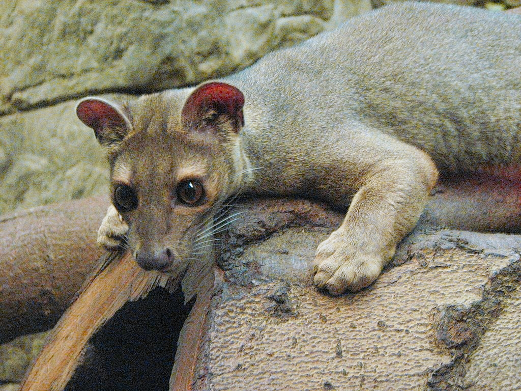 The Fossa was thought to be in the cat family, but has been recognized as in the monkey family. The Fossa is native to Madagascar. The Fossa is nocturnal and we were visiting at night. He was running around like a crazy ferret. Taken at the Cincinnati Zoo during a visit January 20-21, 2007